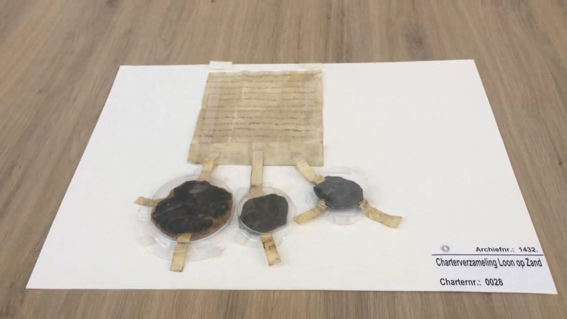 The loan that gives Loan op Zand its name